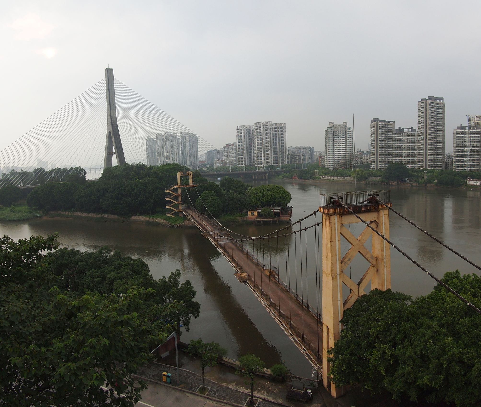 三县洲大桥和江心公园悬索桥 - Sanxianzhou Bridge and River Center Park Suspension Bridge - 2011.07